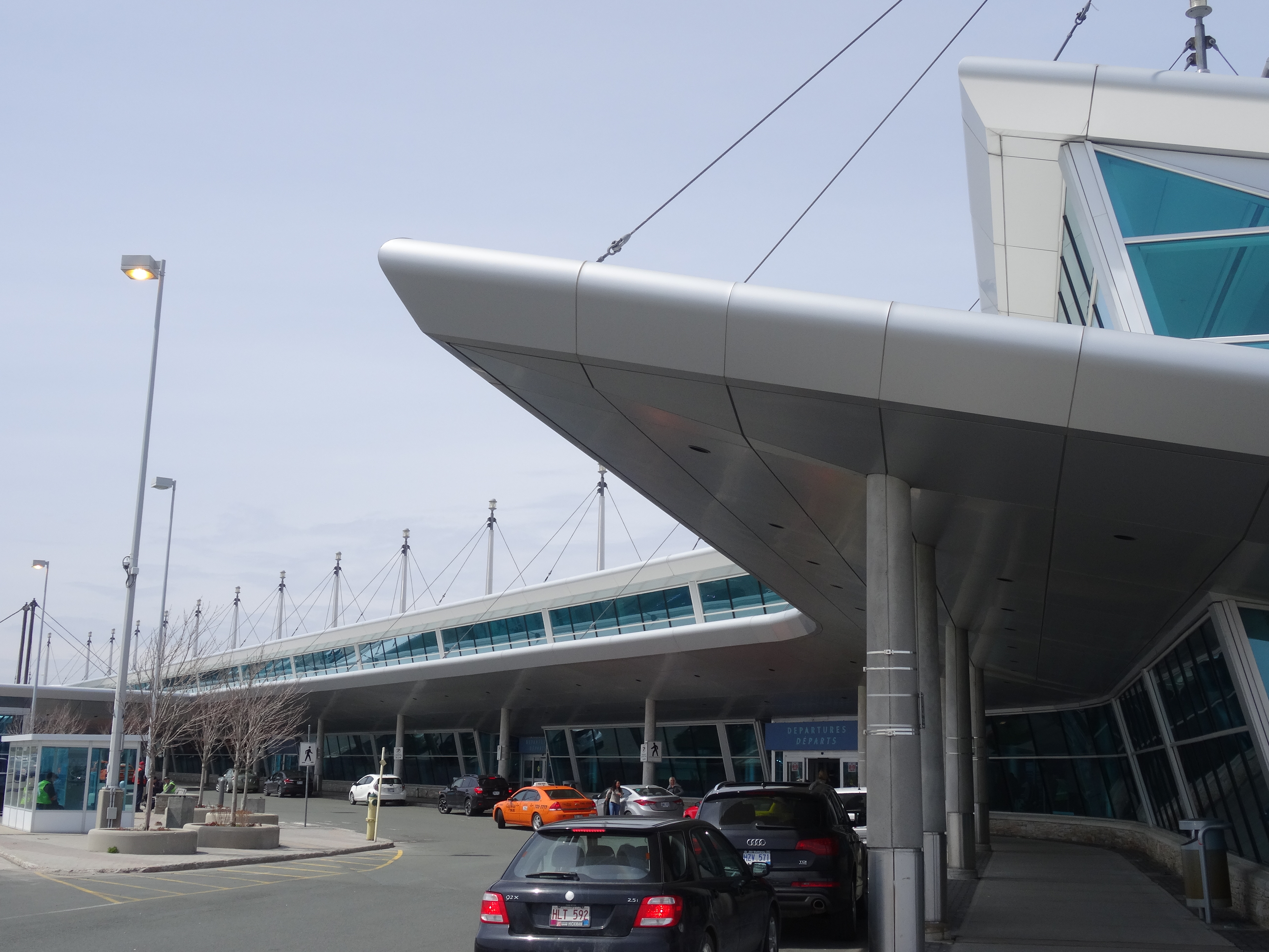 Terminal at St. John's Airport before expansion